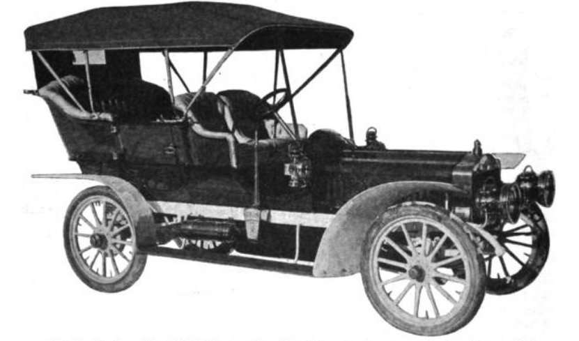 The photo is from an article on page 144 in the April 1906 issue of Cycle and Automobile Trade Journal. The scan is from the Google Book archive. Title Automobile trade journal, Volume 10 Publisher Chilton Company, 1906 Original from the University of Michigan Digitized Oct 2, 2007